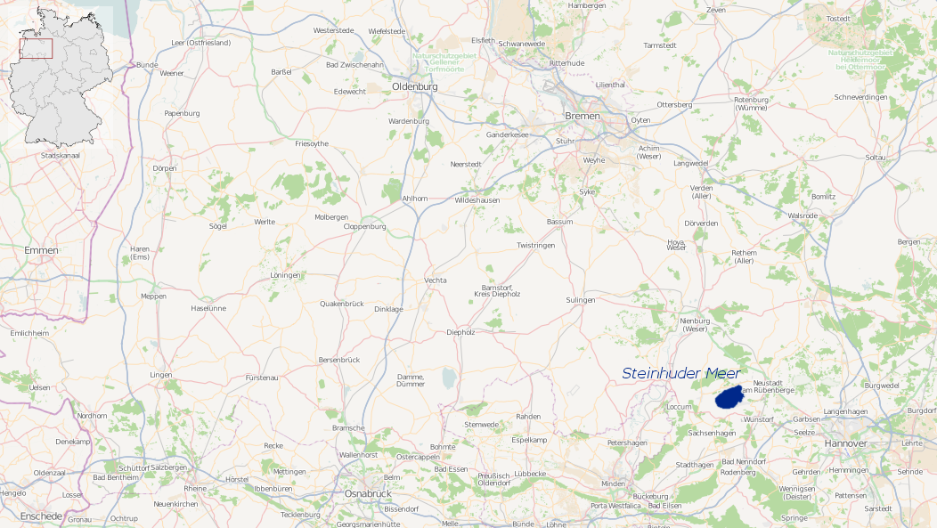 Location of the Steinhuder Meer in Germany